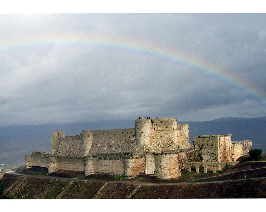 Krak des Chevaliers is a Crusader fortress in Syria and one of the most important preserved medieval military castles in the world.